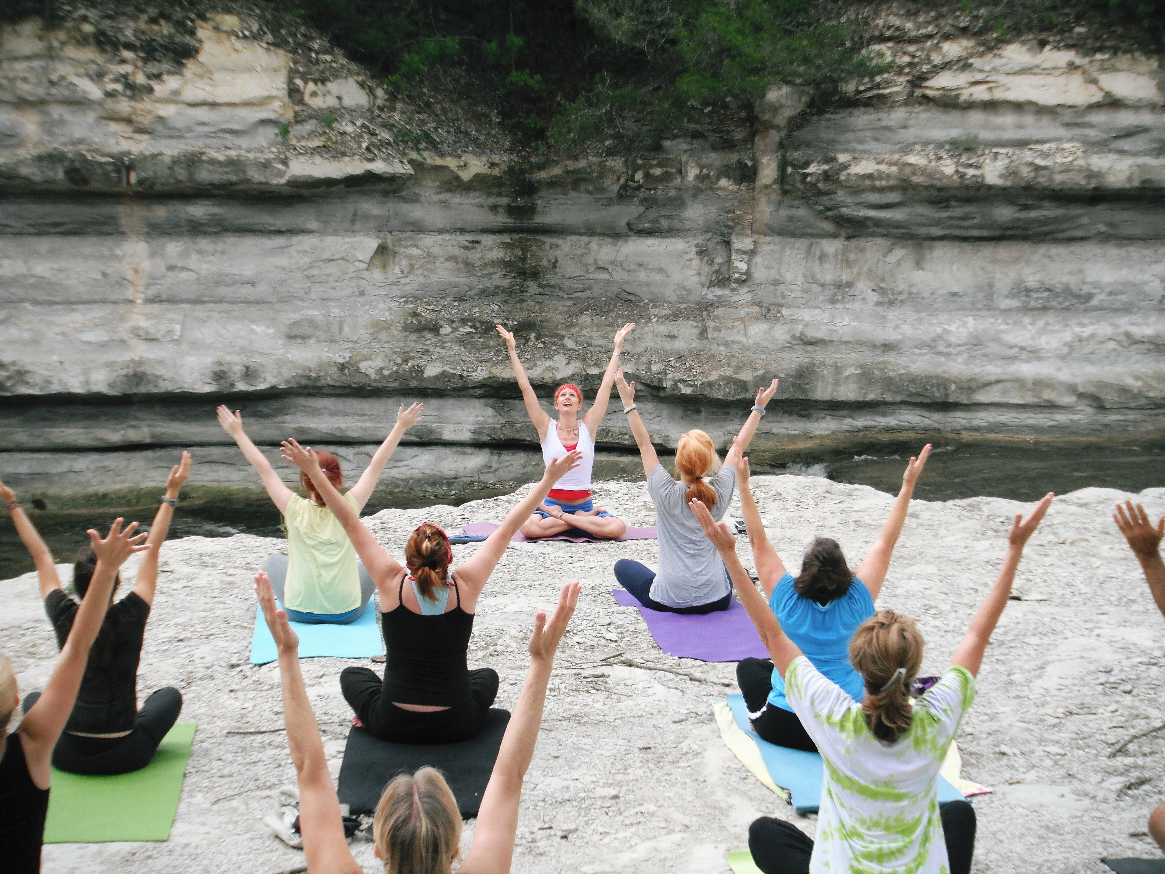 Yoga 4 Love Community Outdoor Yoga class for Freedom and Gratitude on Independence Day 2010 in DFW Texas. Lisa Ware, Richard Ware, authors